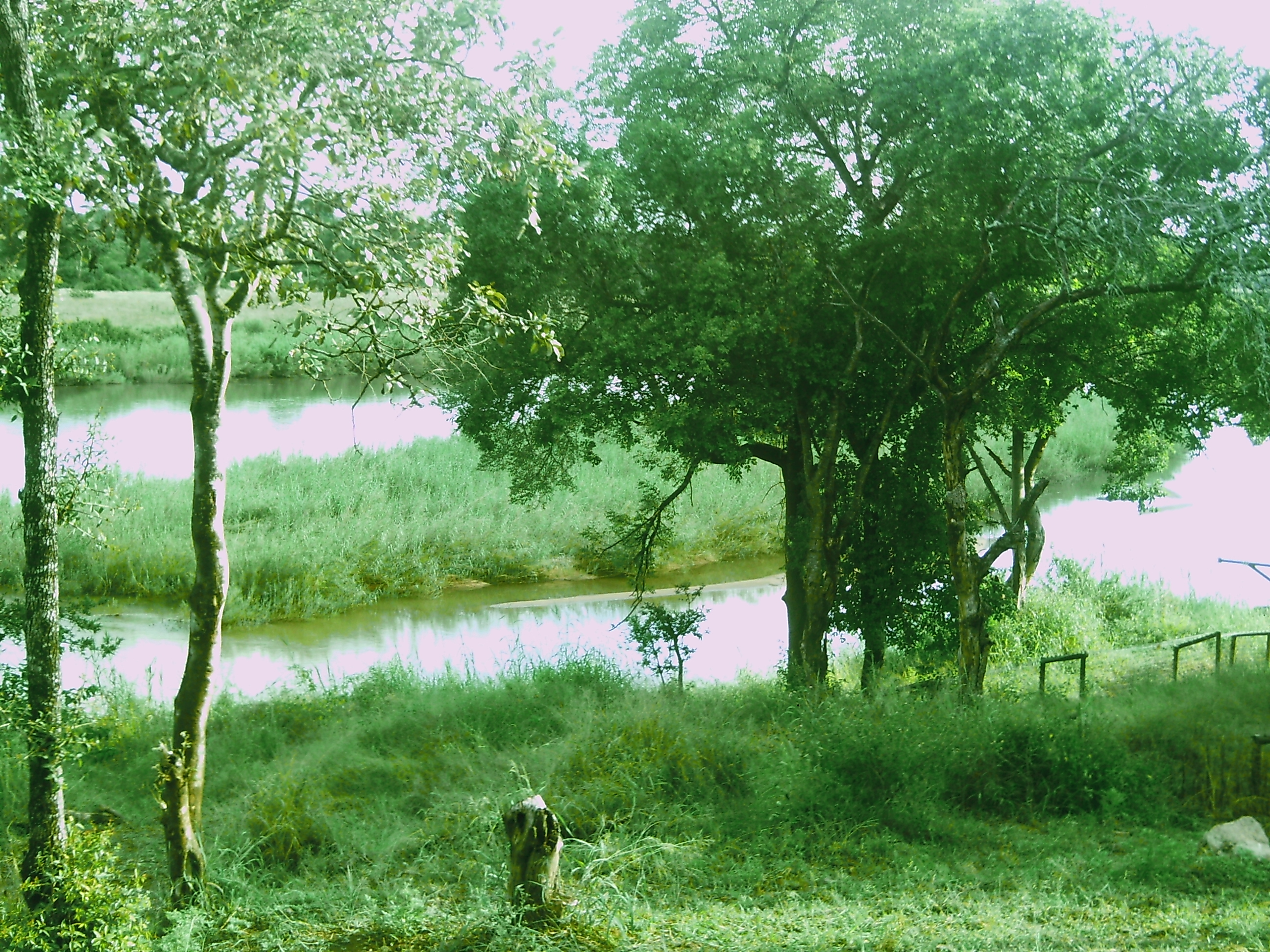 Photo of Crocodile River, viewed from Ngwenya Lodge